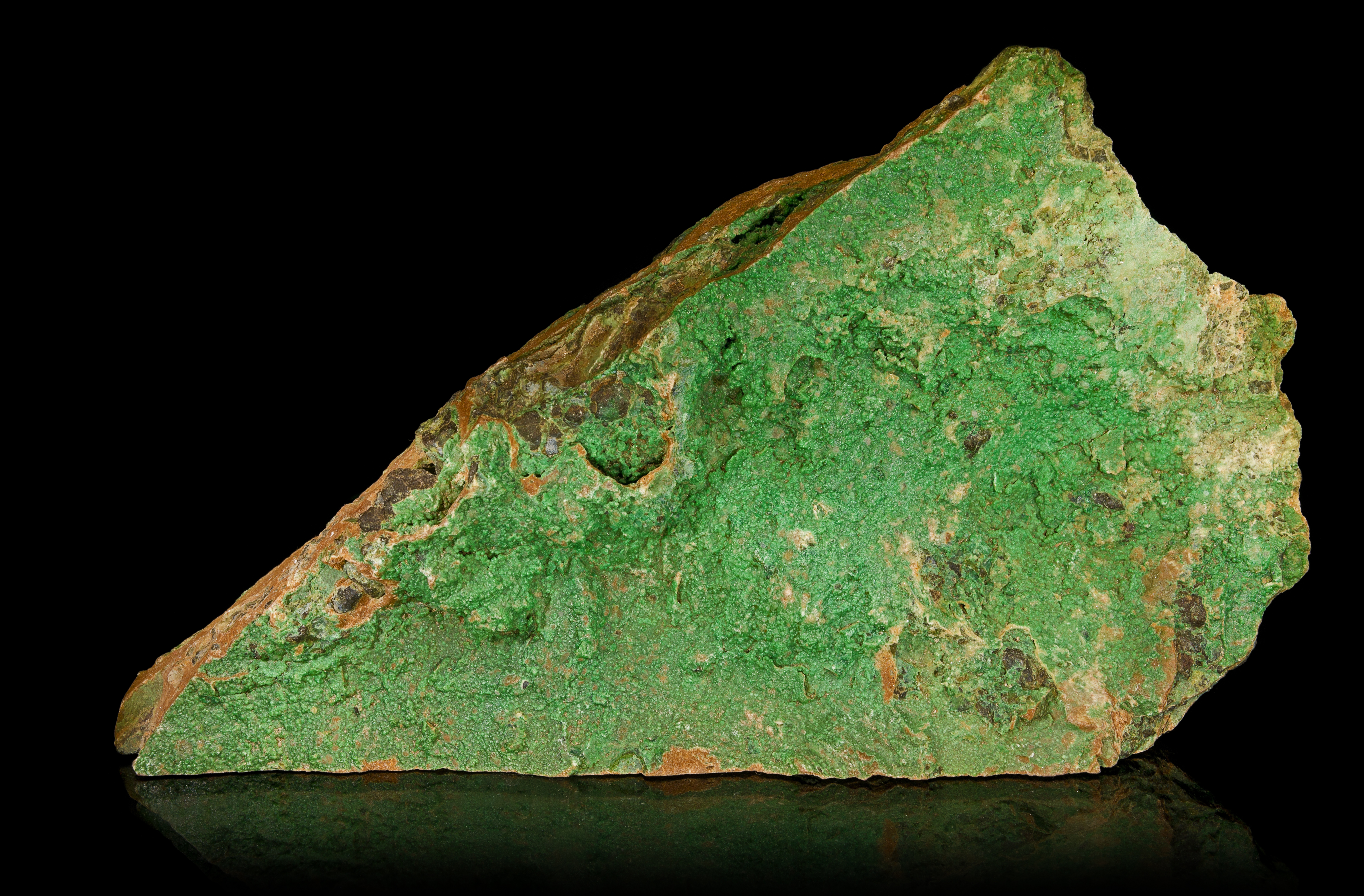 Garnierite Locality: Camps des sapins Mine, Thio, en: North Province, New Caledonia, New Caledonia Size: 21 x 12 x 4cm